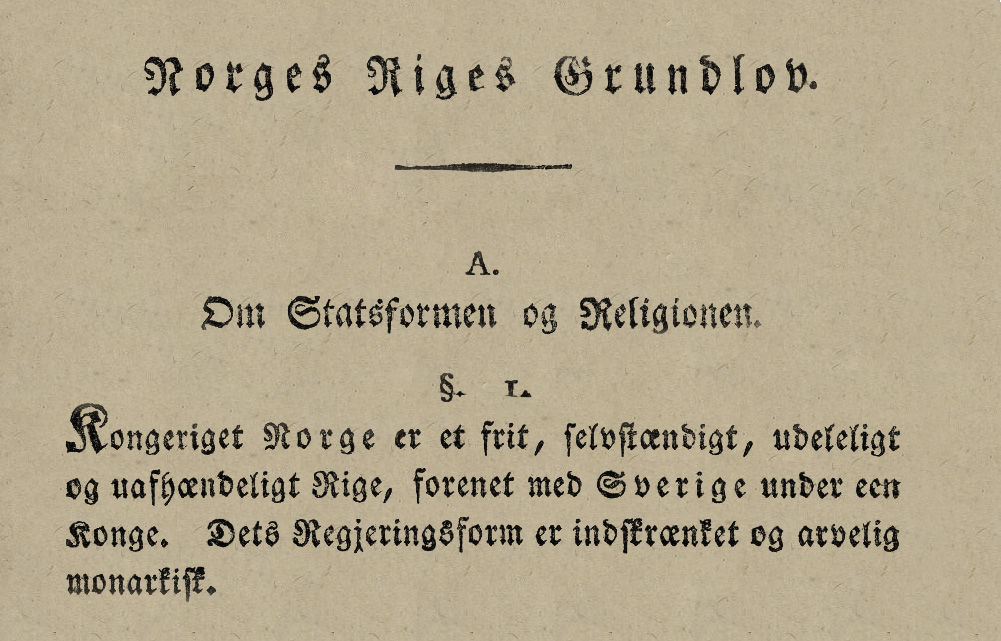 §1 of the Norwegian Constitution of May 17th 1814, as amended November 1814. From official printed edition 1814.